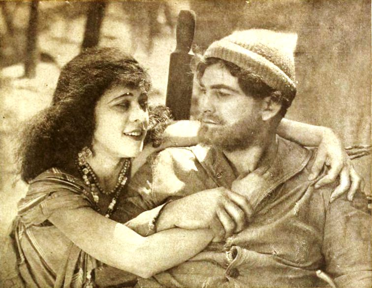 Still from the American silent film Under Crimson Skies (1920) with Beatrice Dominguez and Elmo Lincoln, on page 71 of the February 1920 Motion Picture Magazine.